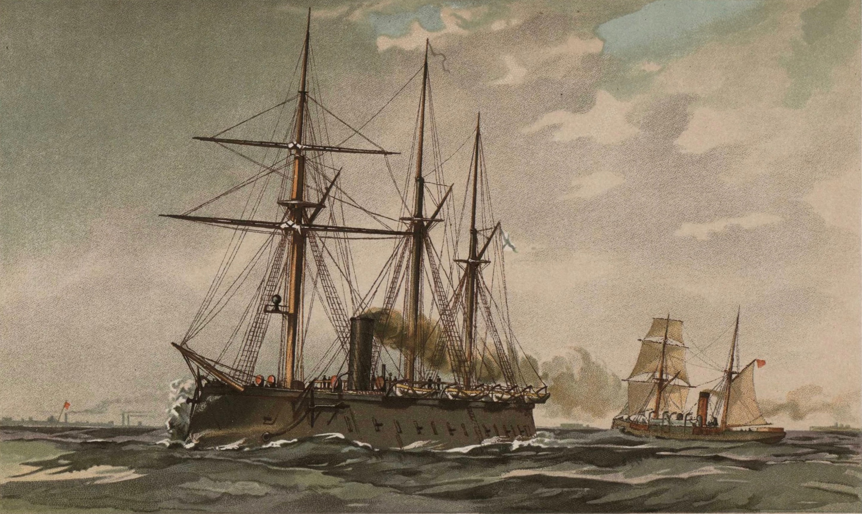 Pervenets (ironclad warship)